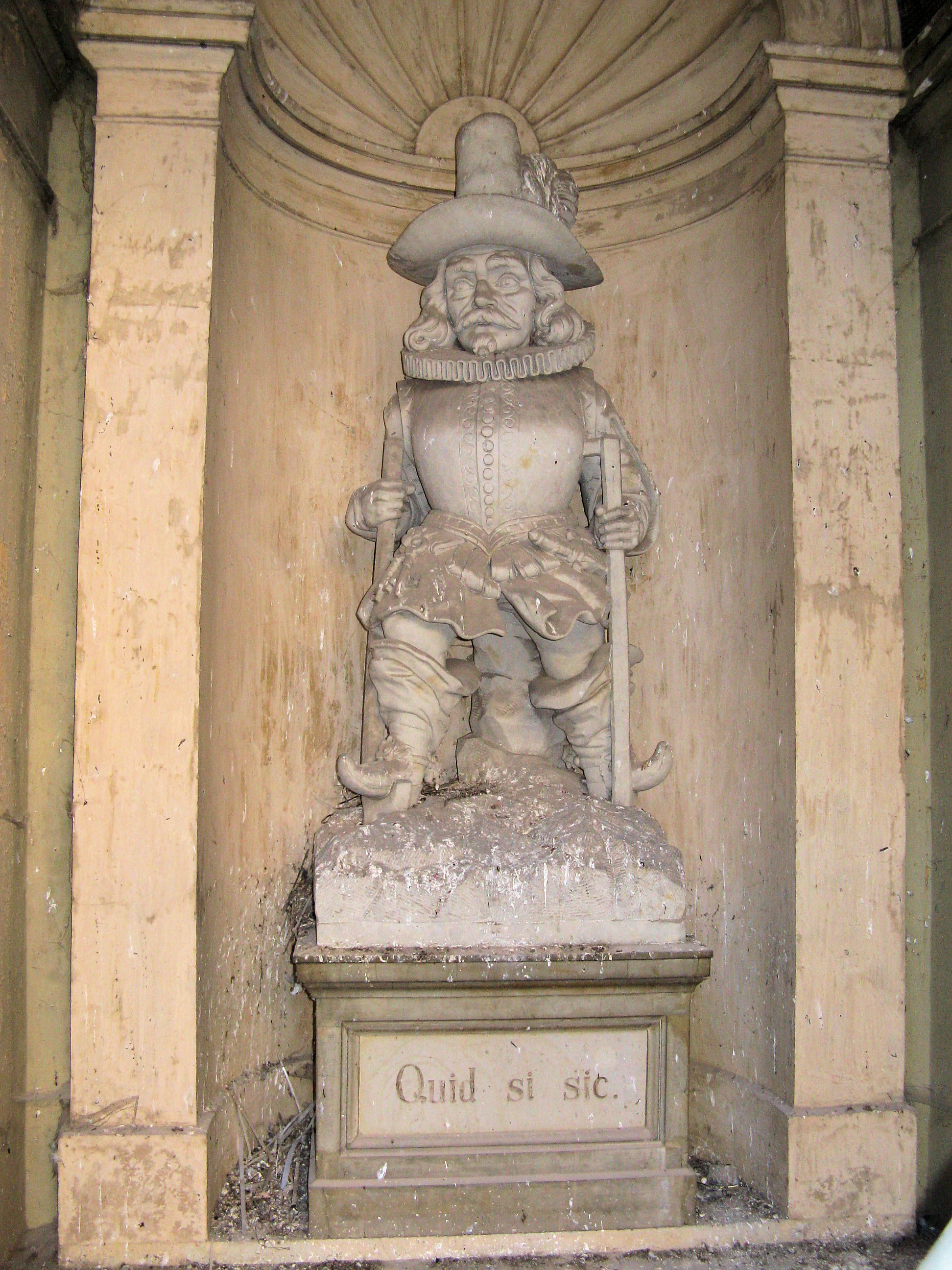 Sculpture of Pertermännchen in facade in the courtyard of Schwerin Castle in Schwerin, Mecklenburg-Vorpommern, Germany